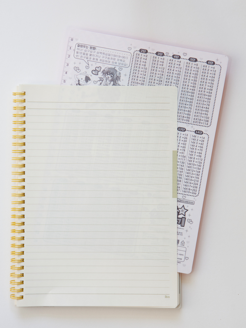 Pencil board